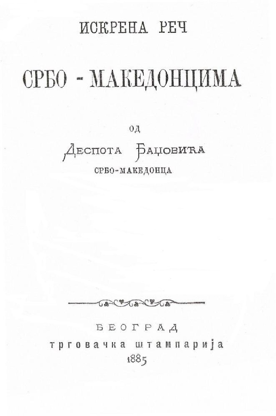 Iskrena Rec Sro-Makedoncima